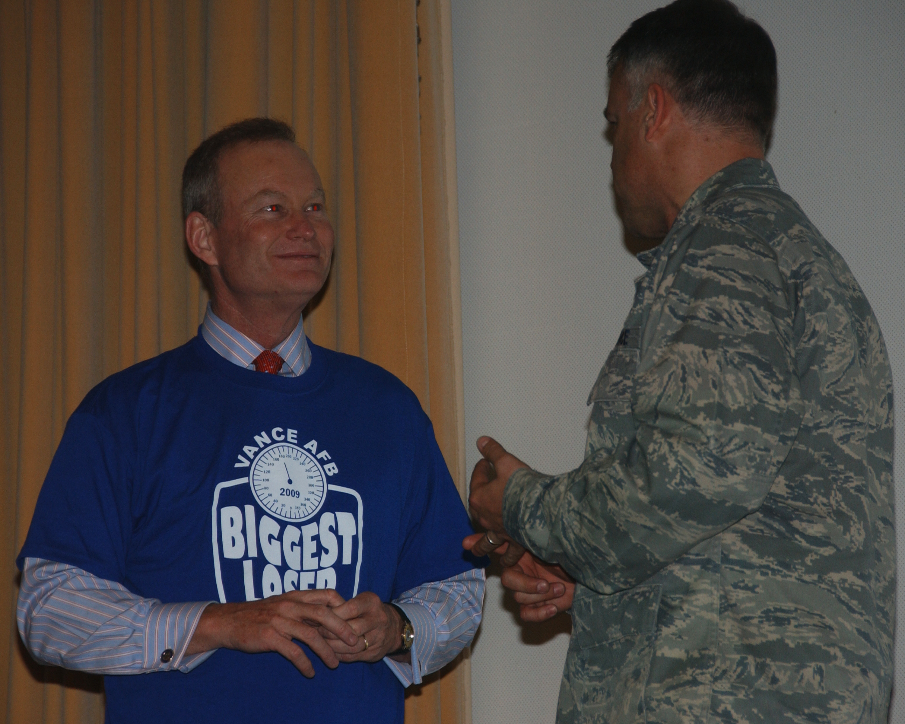 Oklahoma City Mayor Mick Cornett, who started the campaign "This city is going on a diet," visits Vance AFB's own Biggest Loser Competition. Col. Richard Murphy, 71st Flying Training Wing vice commander, presents Mayor Cornett with a Biggest Loser T-Shirt. (U.S. Air Force photo by Staff Sgt. Brian Hill)